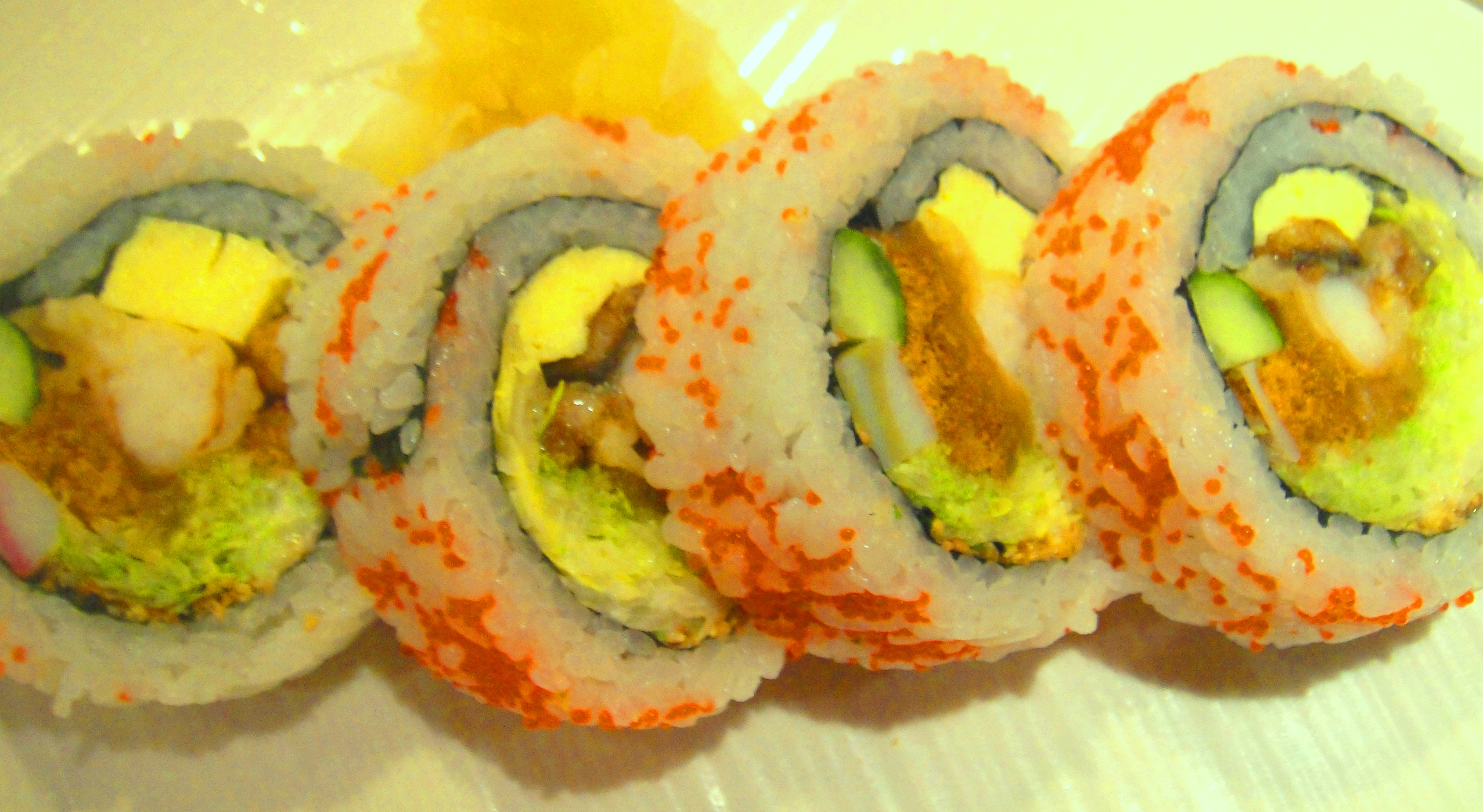 Flower Sushi 中文（台灣）: 花壽司